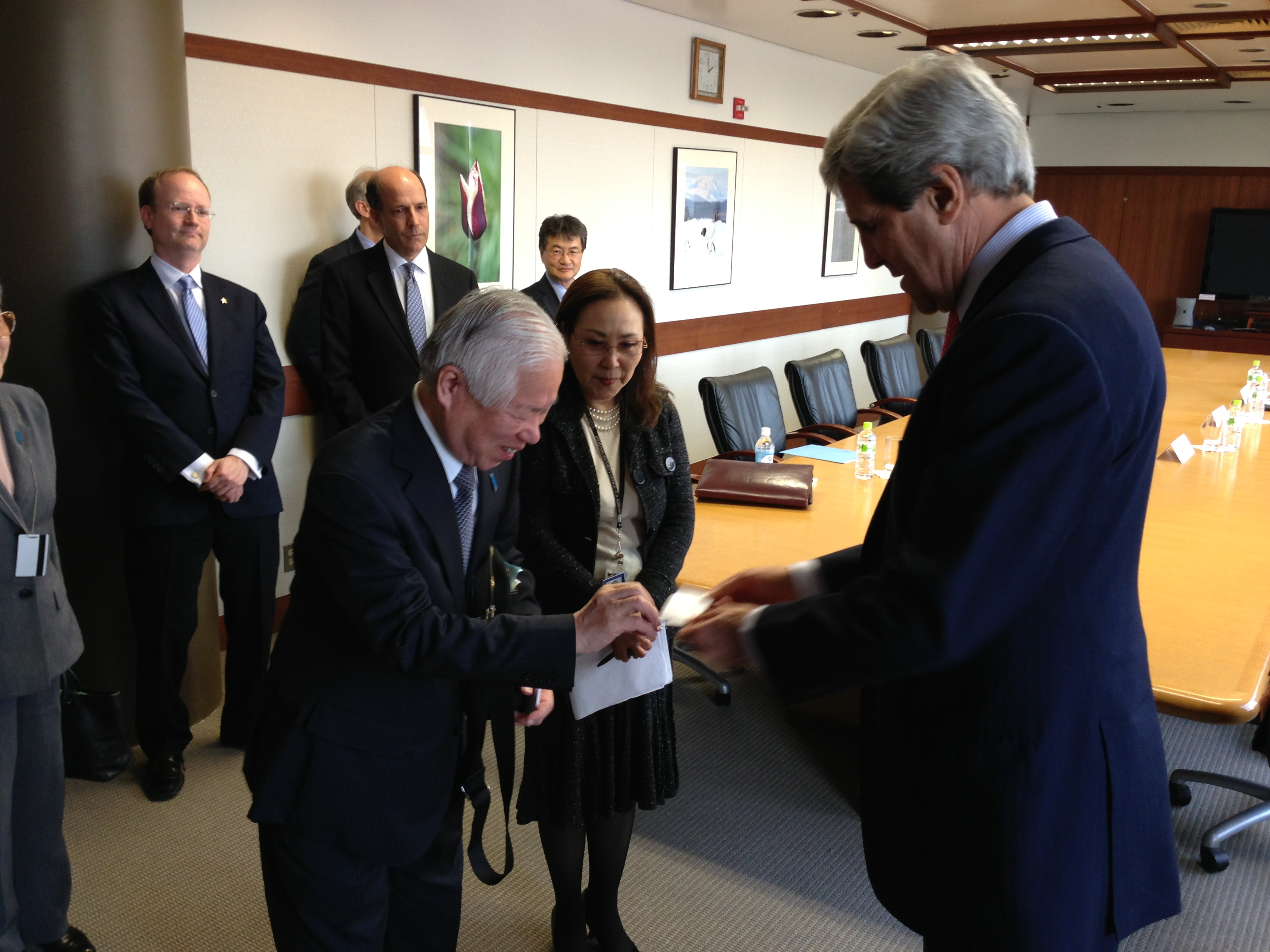 John Kerry, Secretary of State, met Shigeru Yokota, Member of the Association of the Families of Victims Kidnapped by North Korea, at the Embassy of the United States in Tokyo on April 15, 2013.